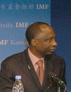 André-Philippe Futa, Minister of Finance of the DR of the Congo